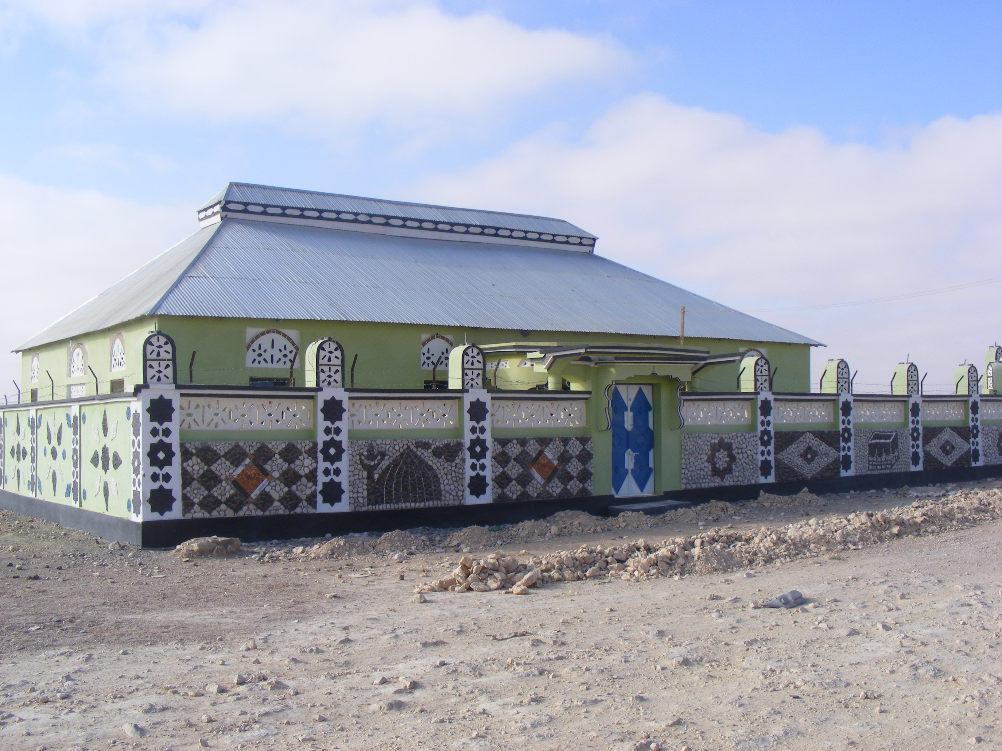 A uniquely designed house in Badhan, Somalia.